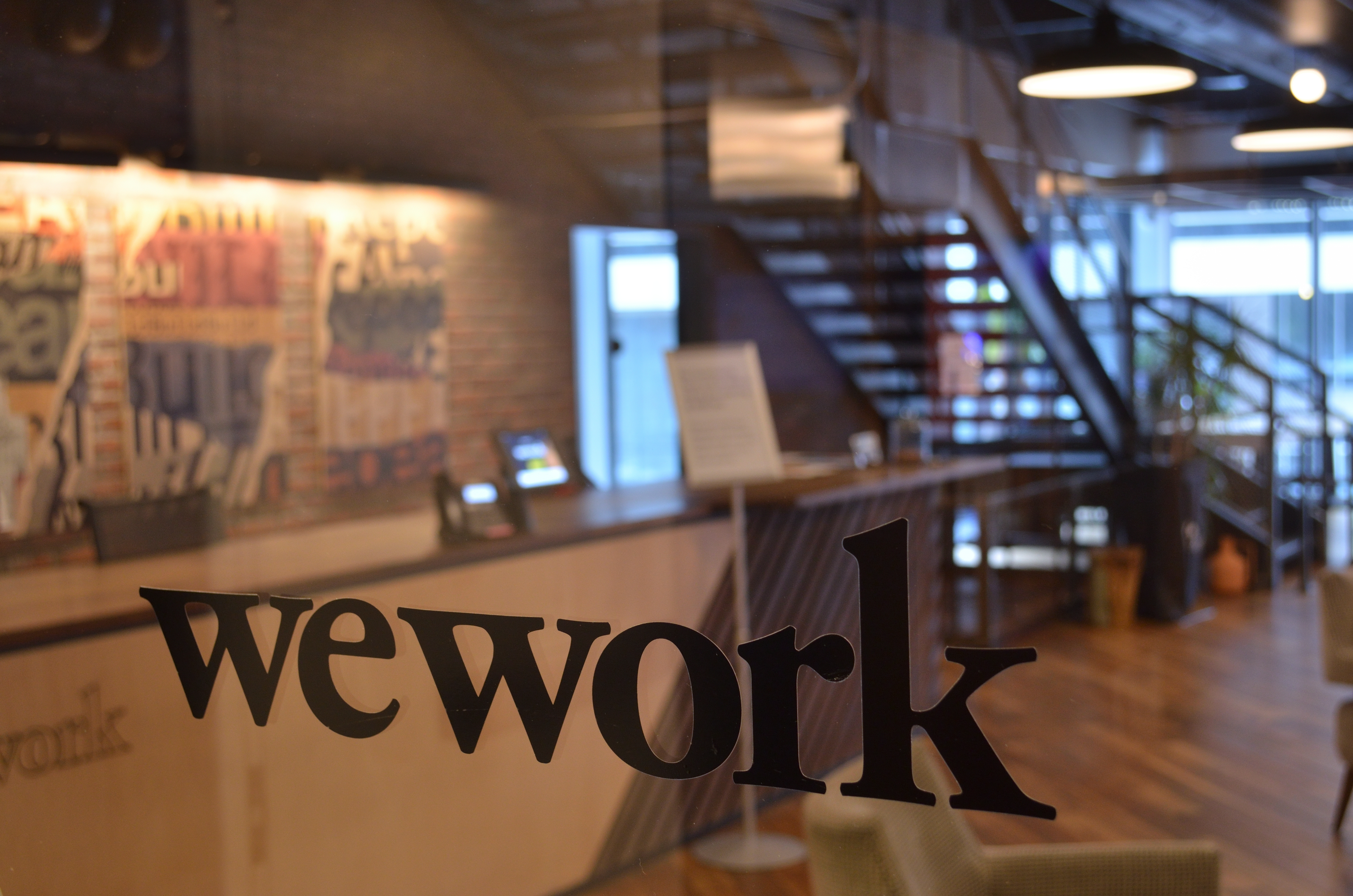 WeWork Office at Triangle Building - Address: 1550 Wewatta St, Denver, CO 80202